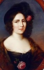 Portrait of Matilde de Gálvez Capece Minutolo (1778 - 1839). She was the wife of the Italian field marshal Raimondo Capece Minutolo and the daughter of Bernardo de Gálvez, the Viceroy of Mexico from 1785 to 1786